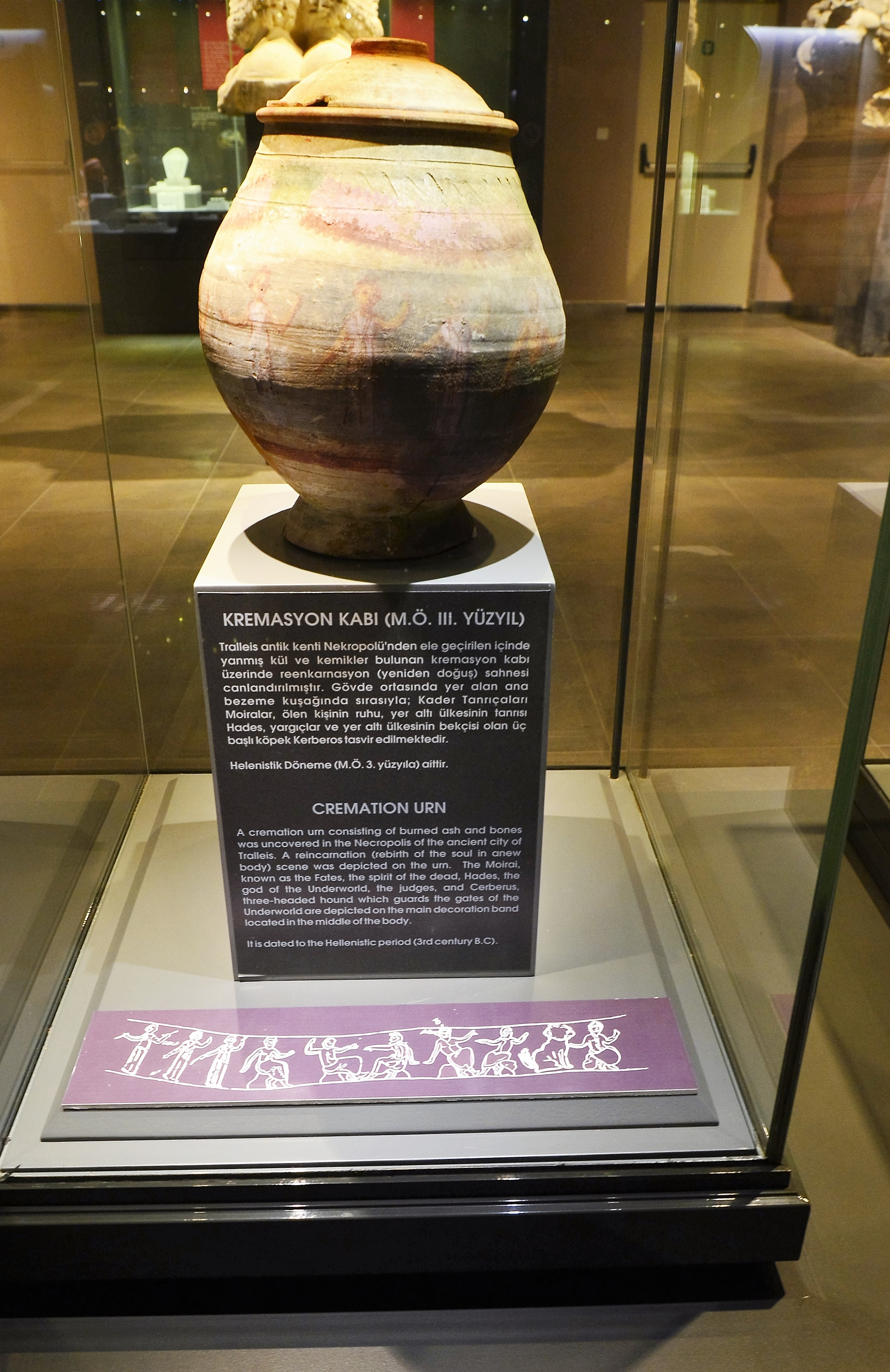 Cremation urn at Aydın Archaeological Museum decorated with incarnation motif depicting destiny's god Moirai, the soul of the dead person person, chthonic god of the underworld Hades, the judges of the underworld and the three-headed guard dog Cerberus of Hades